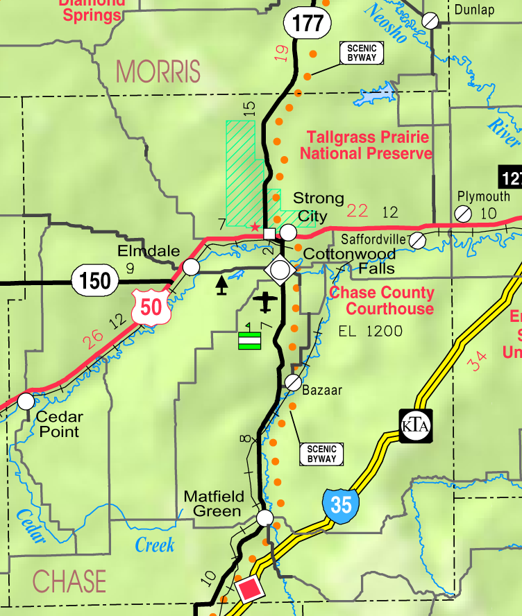 This map of Chase County, Kansas, USA, is copied at a resolution of 300 pixels/inch from the original PDF file.